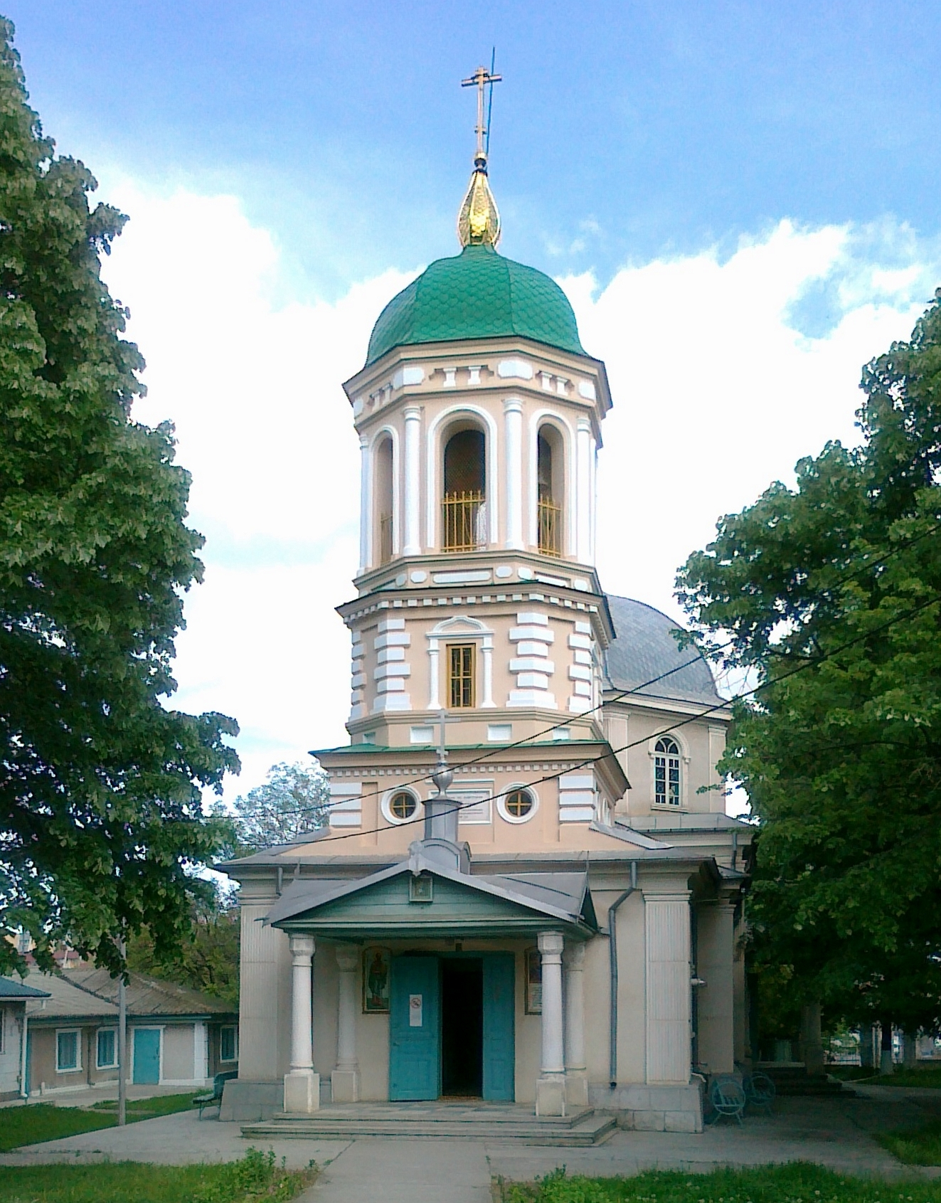 The orthodox(lippovani) church in the town of Tulcea, Romania